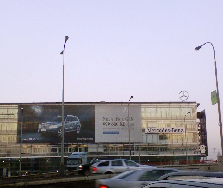 Local headquarters of Mercedes - Benz in Prague, The Czech Republic